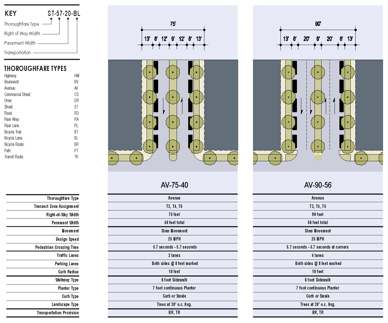 DPZ Smart Code 9.0 Thoroughfare Module Page 21, Avenues